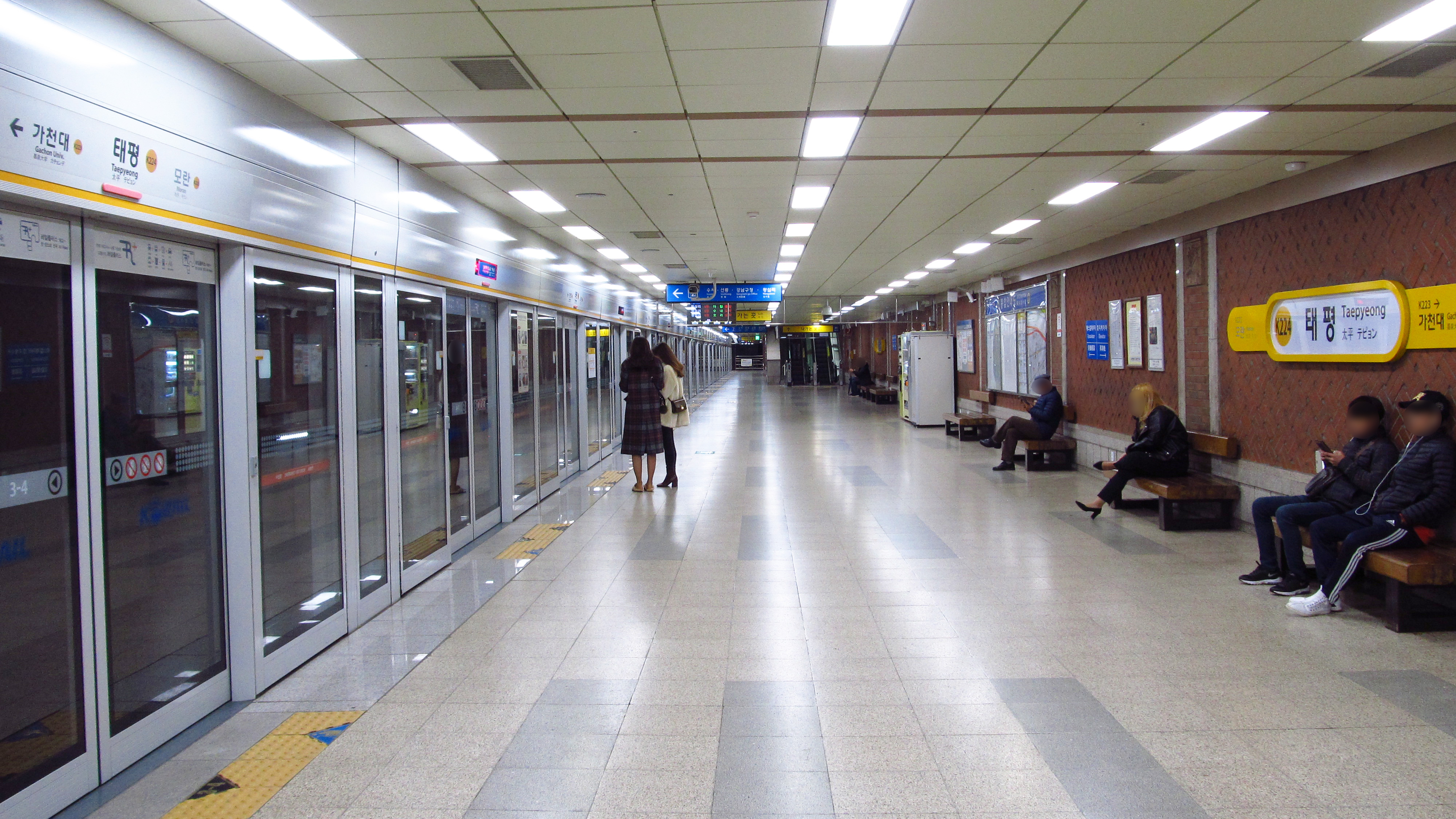 The platform at Taepyeong Station on Bundang Line in Seongnam city, Gyeonggi-do(province), Republic of Korea(South Korea)